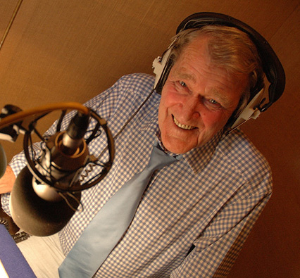 Patrick Allen during a recording session in London in March 2005.